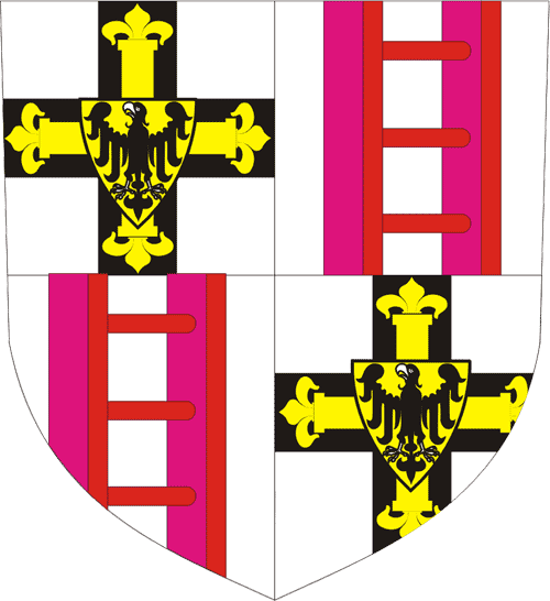 Teutonic Order - Coat of Arms of the Grandmaster Burchard von Schwanden